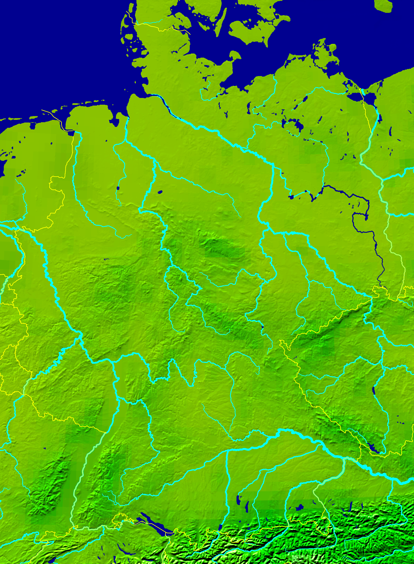 Germany's Rivers from Space